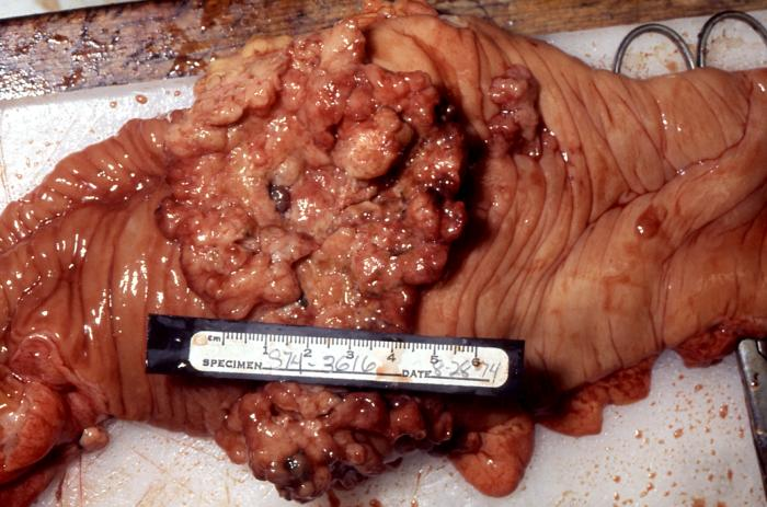 ID#: 62 Description: Gross pathology of adenocarcinoma, colon Exophytic adenocarcinoma of colon. Surgical specimen. Content Providers(s): CDC/ Dr. Edwin P. Ewing, Jr. Creation Date: 1974 Copyright Restrictions: None - This image is in the public domain and thus free of any copyright restrictions. As a matter of courtesy we request that the content provider be credited and notified in any public or private usage of this image.